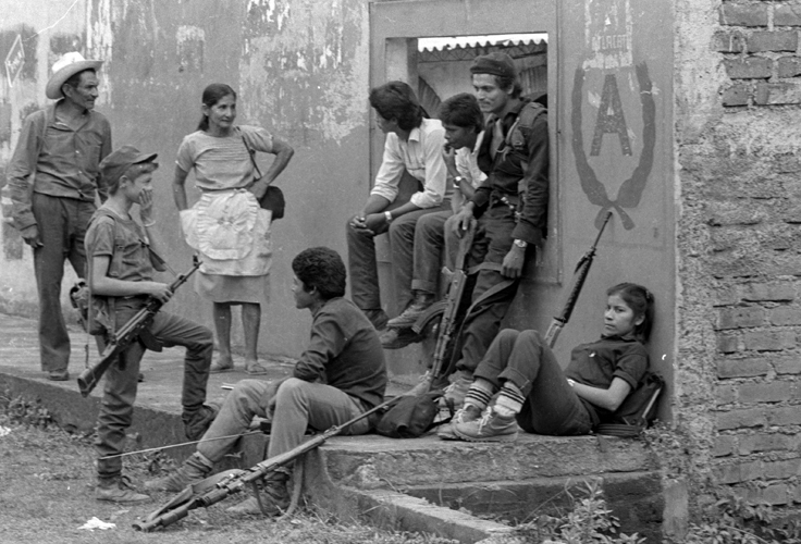 ERP combatants in Perquín, El Salvador in 1990